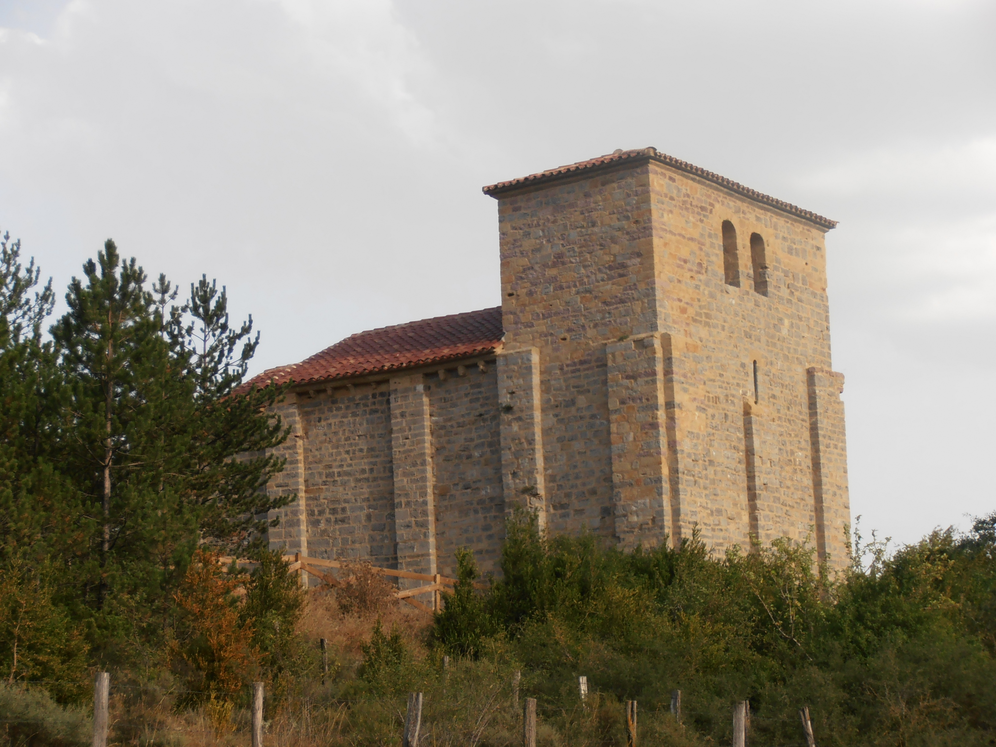 Santa Maria de Arce. Romanic church located in Navarre (Spain)